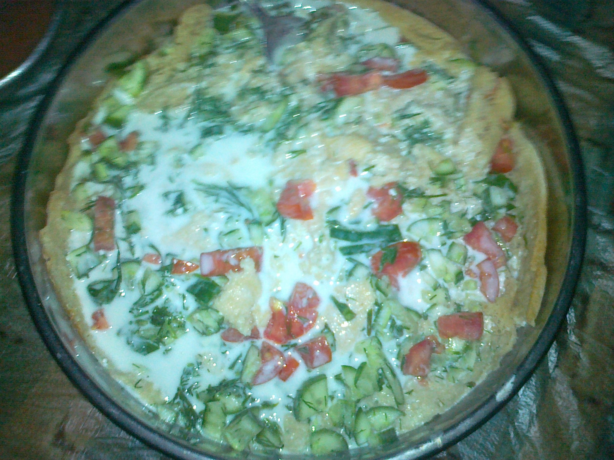 Typical Shafoot consists of special bread (Lahooh) and yogurt with different vegetables added.